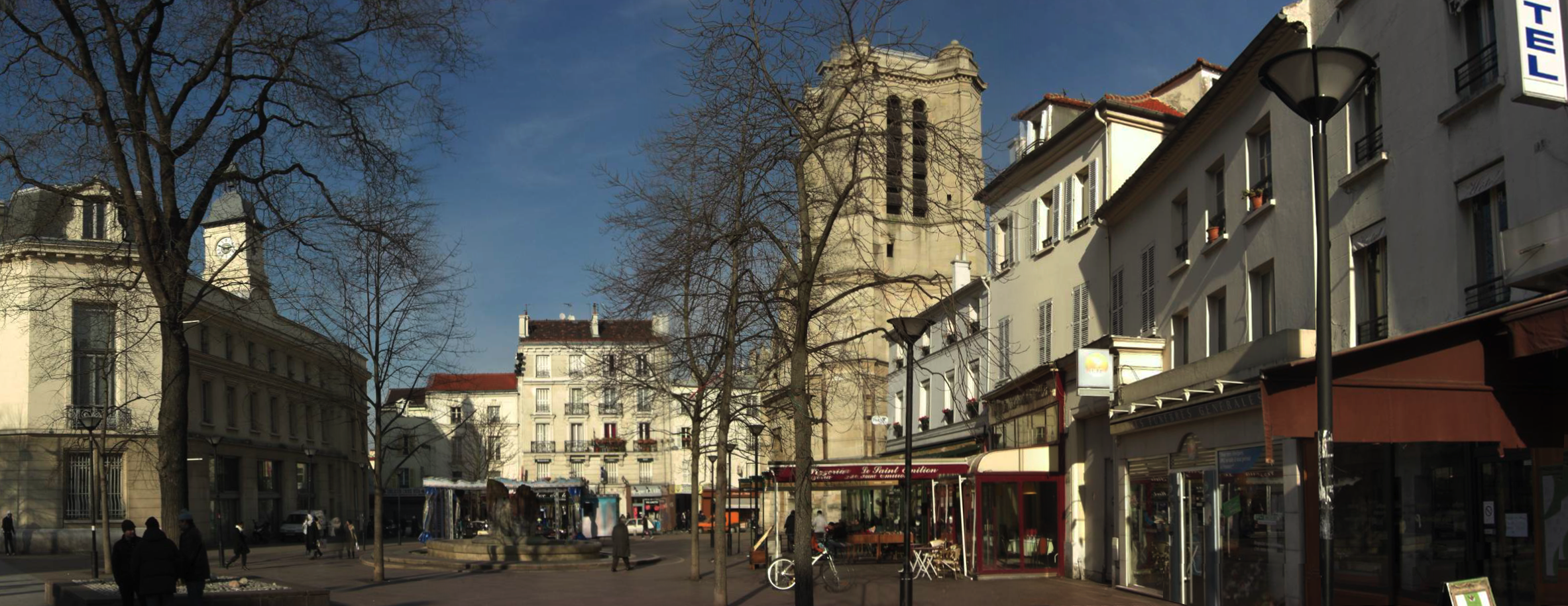 Center of the city of Aubervilliers.